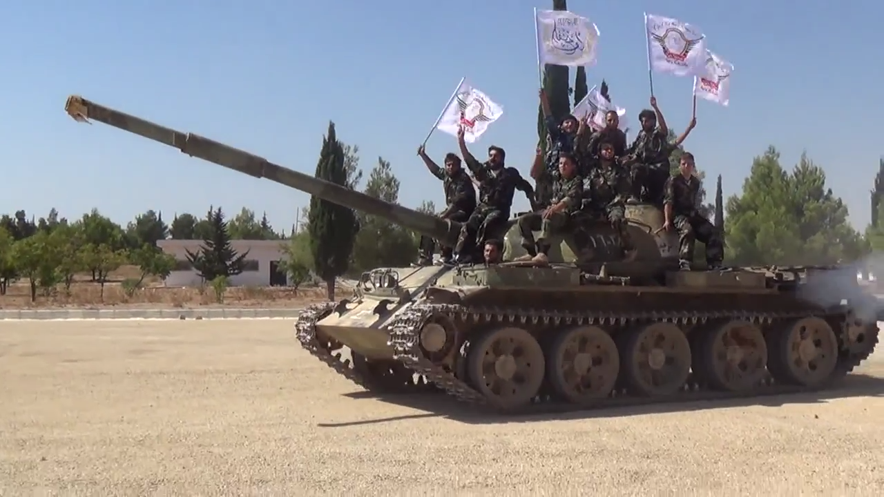 A T-62 tank operated by the al-Tawhid Brigade and the Conquest Brigade in Tell Rifaat.